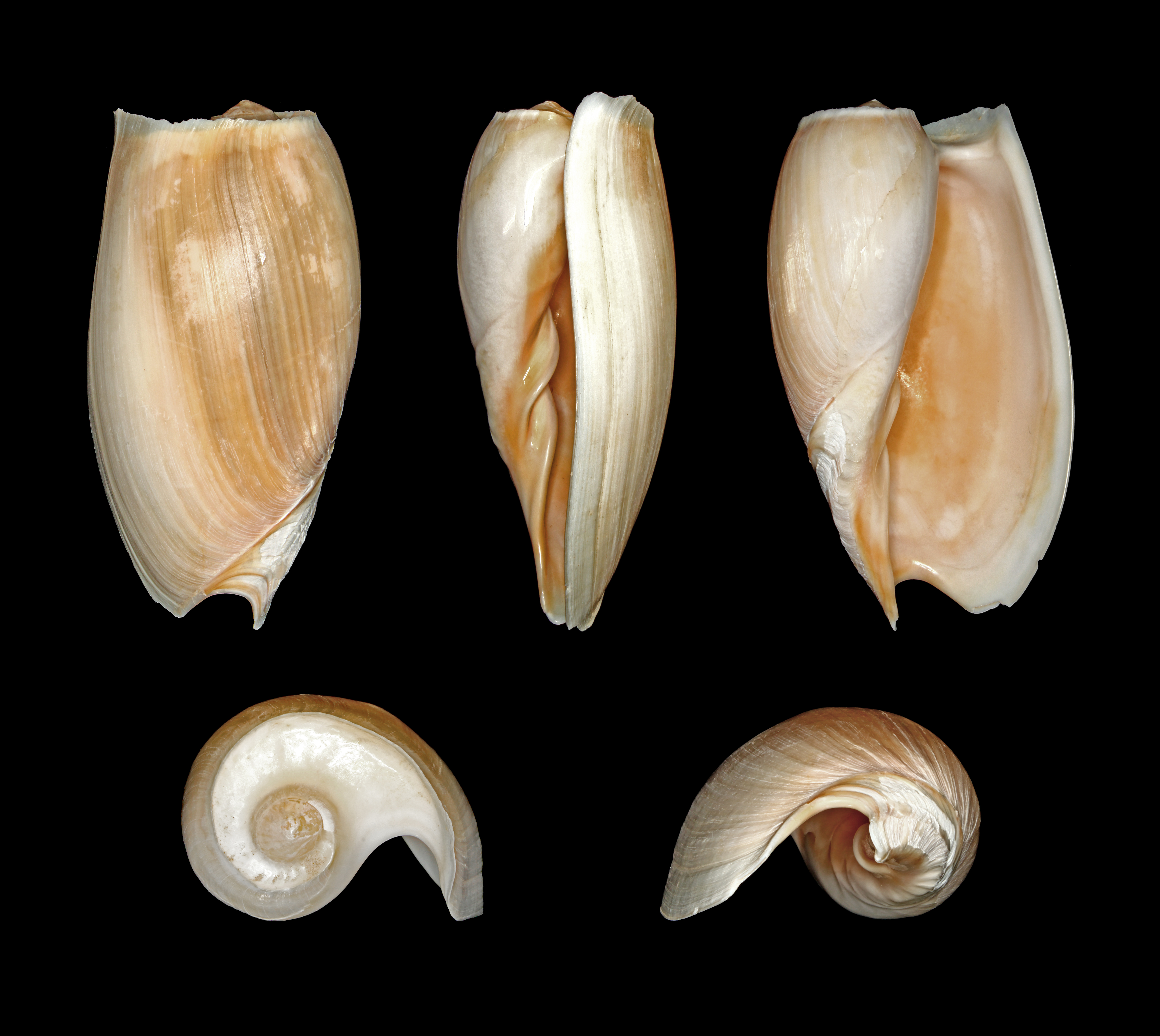 False Elephant's Snout; Length 10.5 cm; Originating from the coast at Oued Chebeïka, Morocco; Shell of own collection, therefore not geocoded. Dorsal, lateral (right side), ventral, back, and front view.